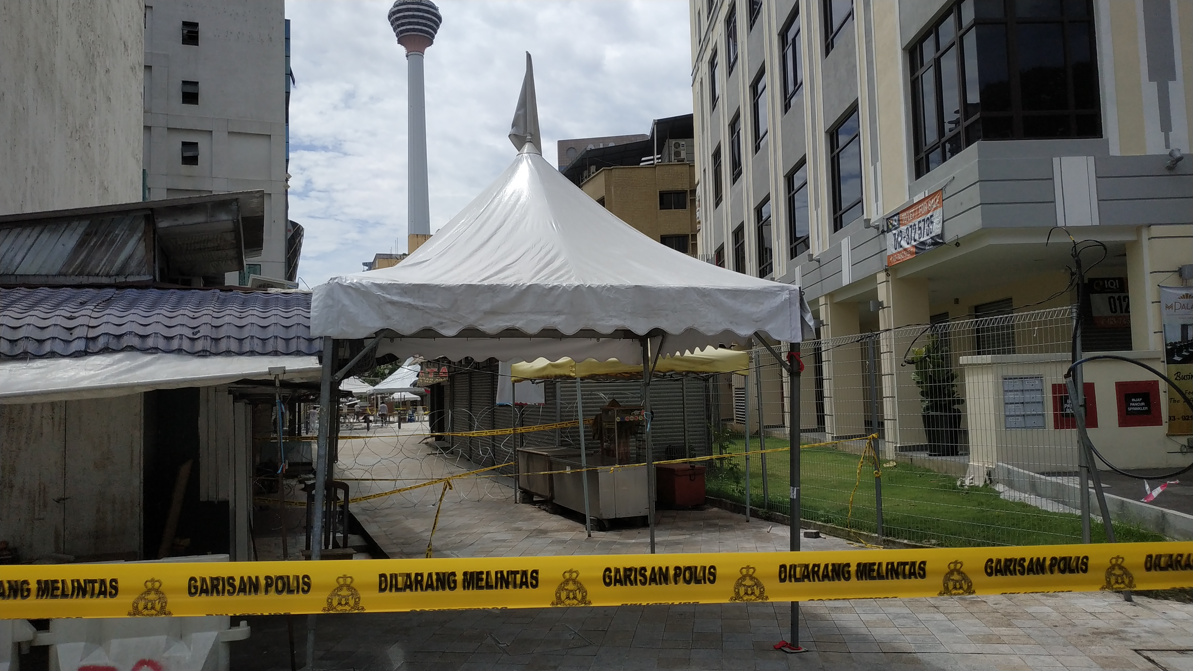 Jalan Tuanku Abdul Rahman, Kuala Lumpur during Extended Movement Control order due to Coronavirus pandemic